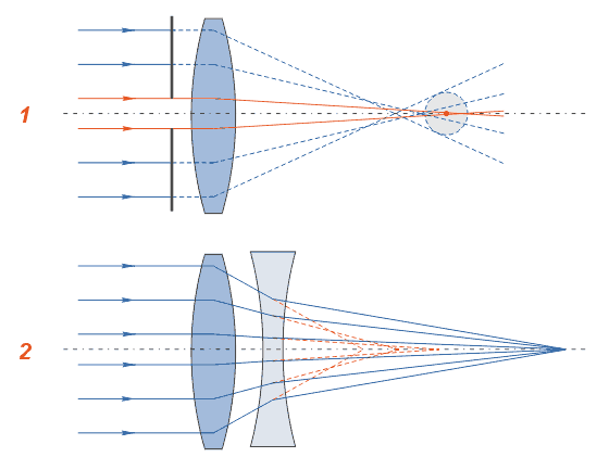 Decription Object